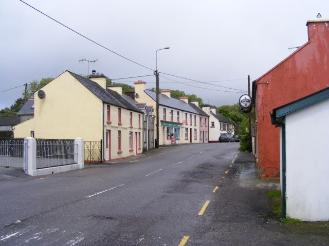 Main street, Drinagh - Paddock Townland